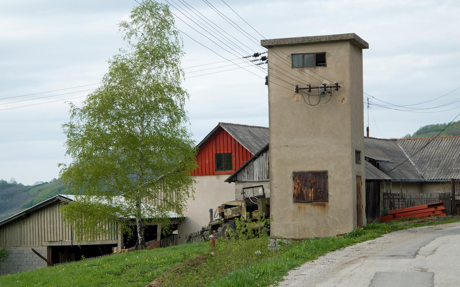 Varnice village in Serbia.